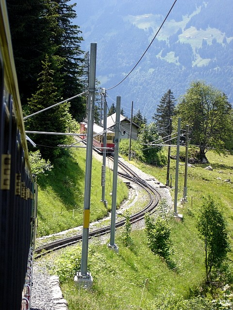 Schynige Platte-Bahn